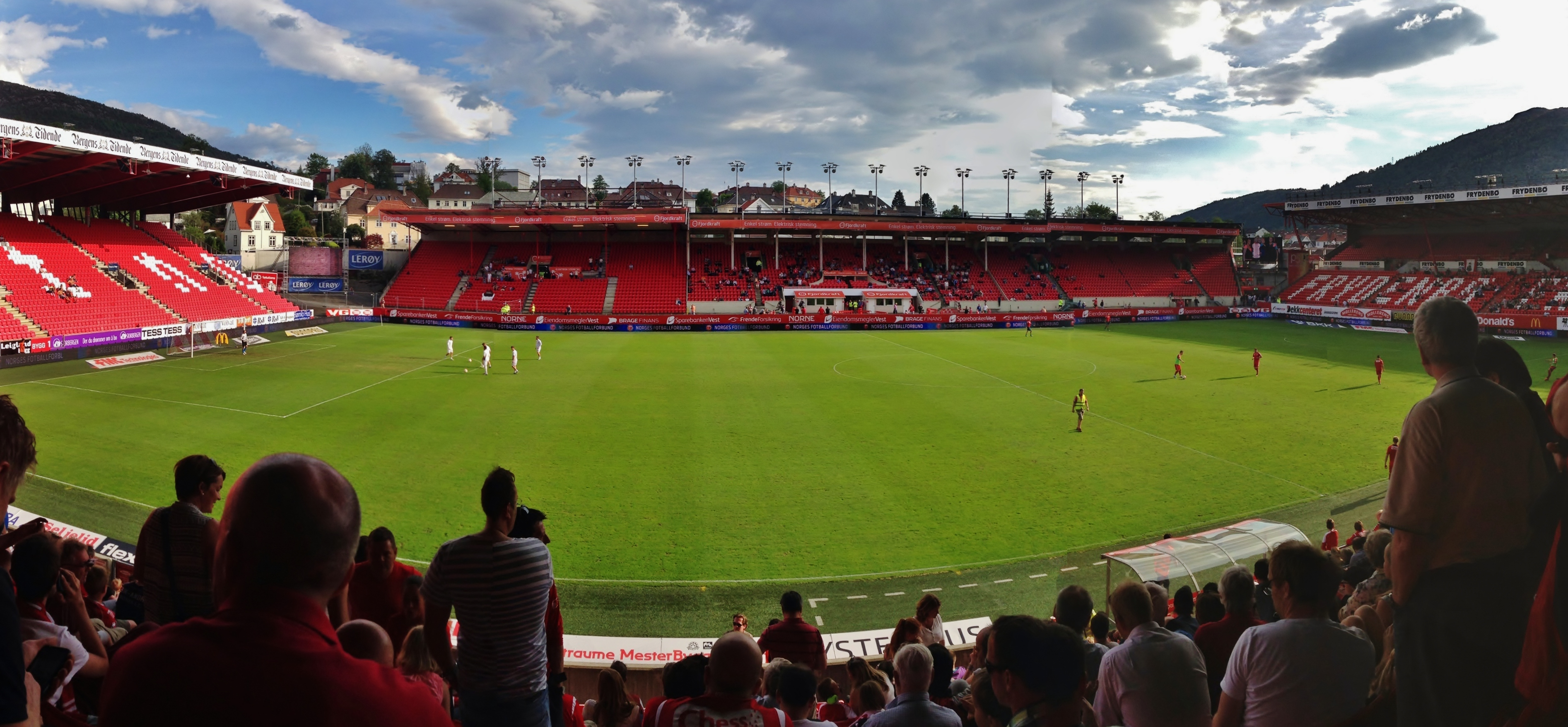 Brann Stadium